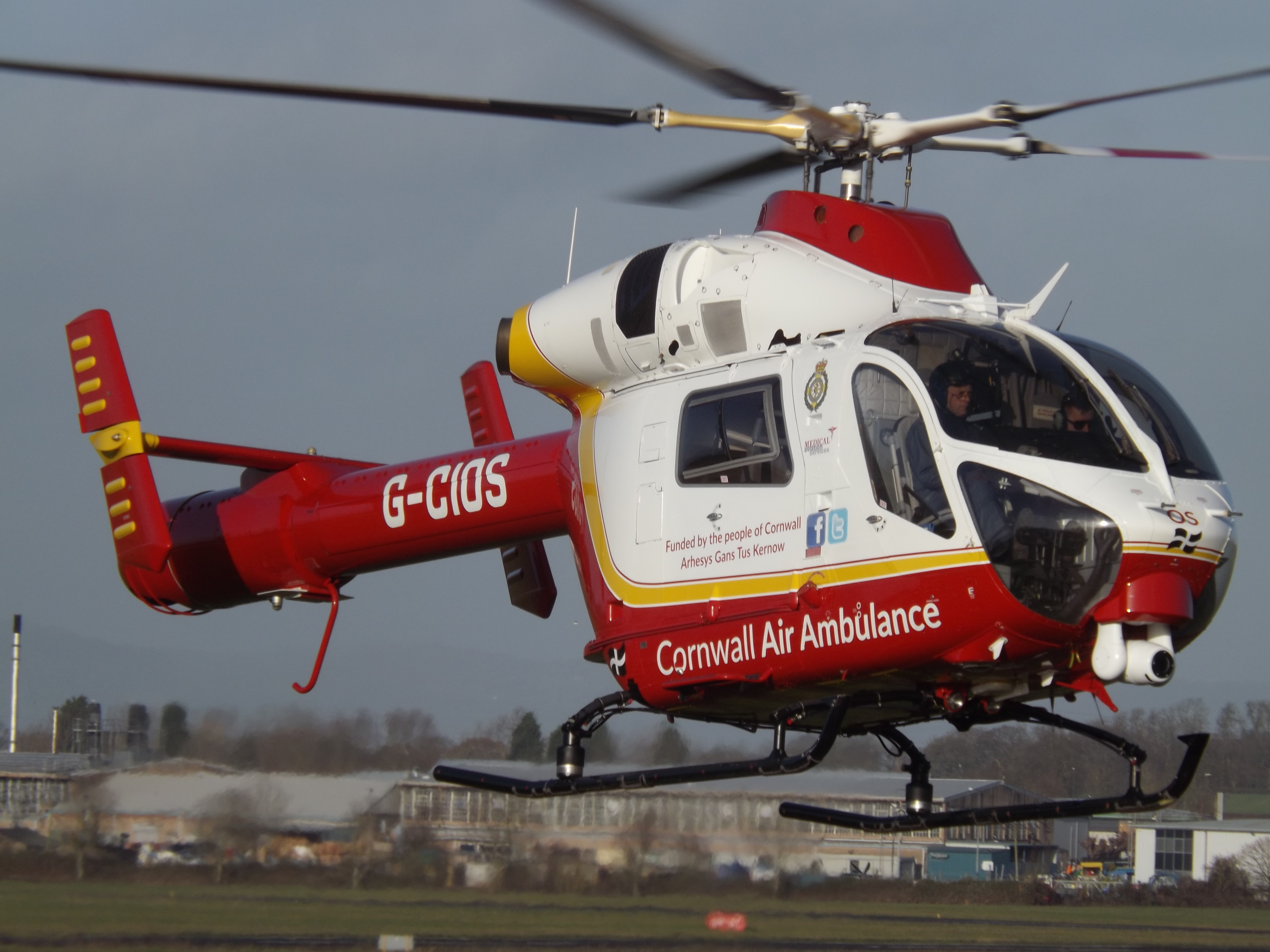 At Gloucestershire Airport.